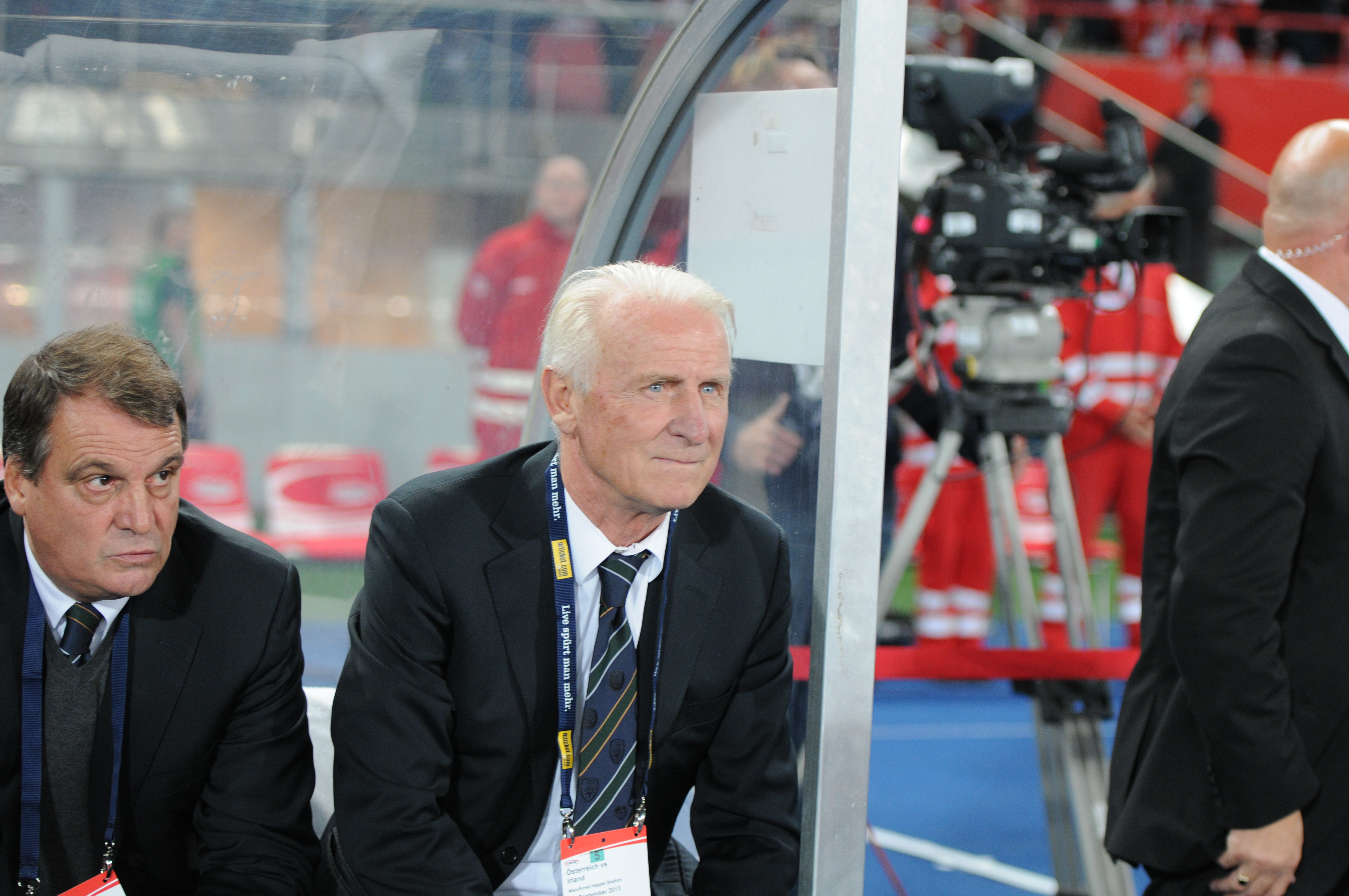 2014 FIFA World Cup qualification (UEFA), Group C: Republic of Ireland national football team at 10. September 2013 before the match against the Austria national football team (0:1) in the Ernst-Happel-Stadion in Vienna. Here: Giovanni Trapattoni, Irish head coach. The making of this work was supported by Wikimedia Austria. For other files made with the support of Wikimedia Austria, please see the category Supported by Wikimedia Österreich.